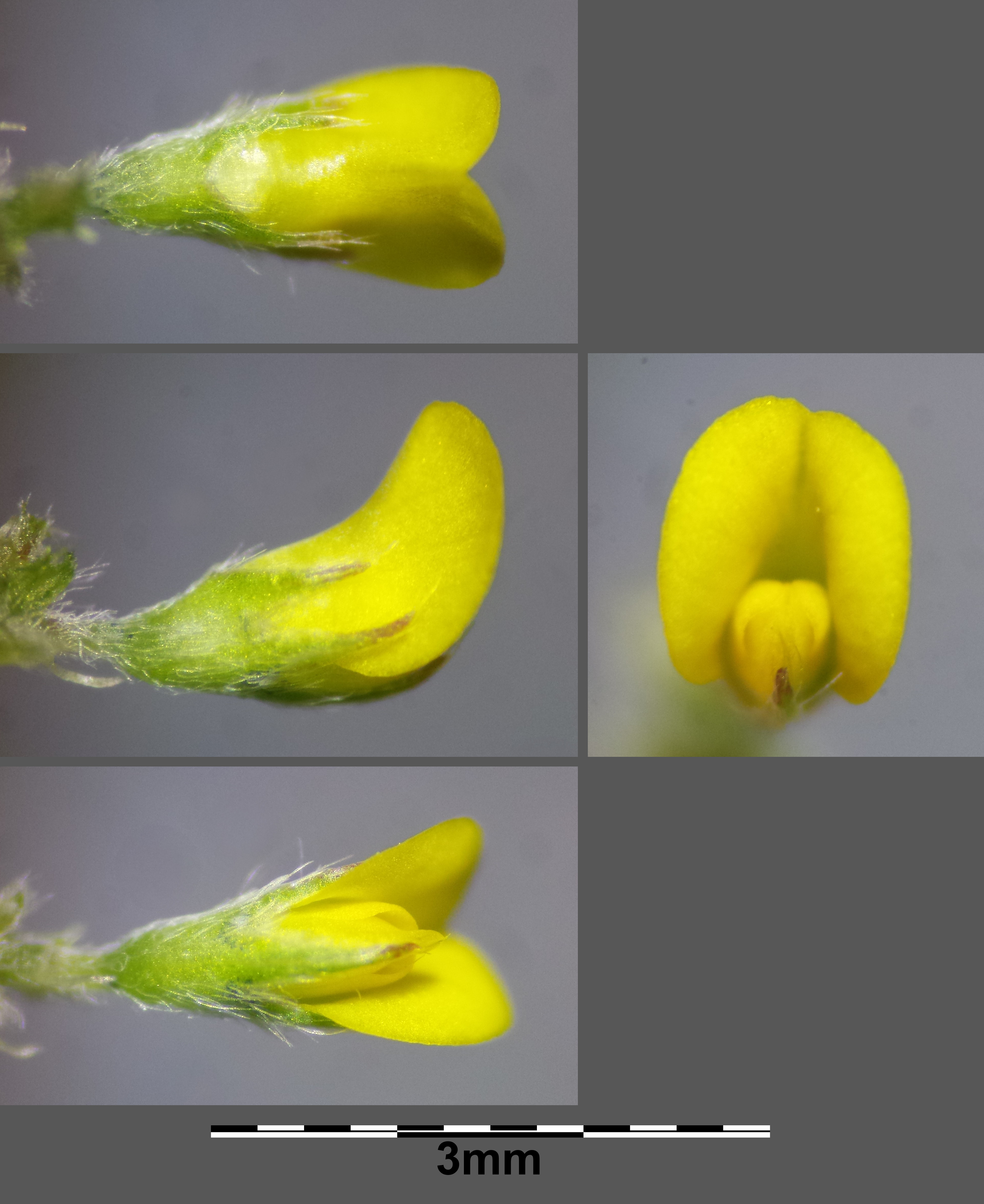 Flower Taxonym: Medicago lupulina ss Fischer et al. EfÖLS 2008 ISBN 978-3-85474-187-9 Location: Neue Donau, Vienna-Floridsdorf - ca. 160 m a.s.l. Habitat: dry meadows